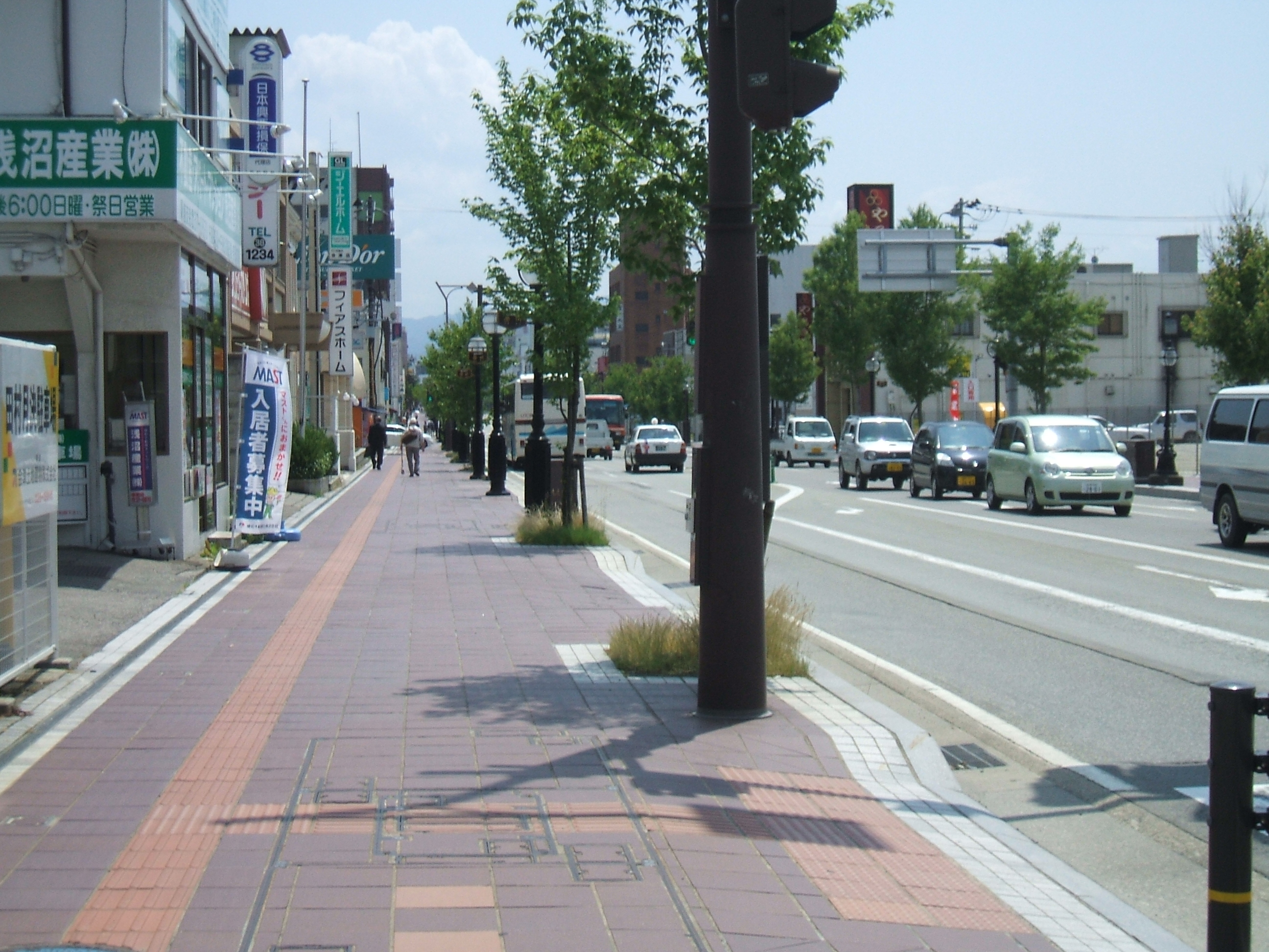 This is landscape of Tyuou-Dori Street at Aizuwakamatsu, Fukushima.